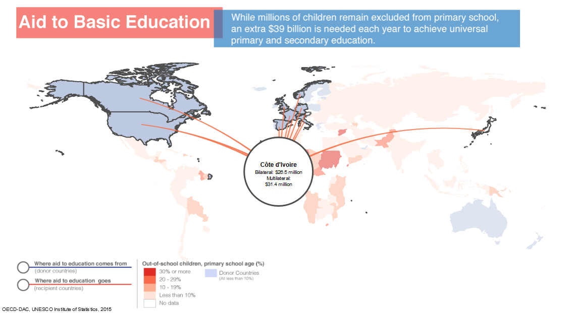 Aid to Basic Education. While millions of children remain excluded from primary school, an extra $39 billion is needed each year to achieve universal primary and secondary education.